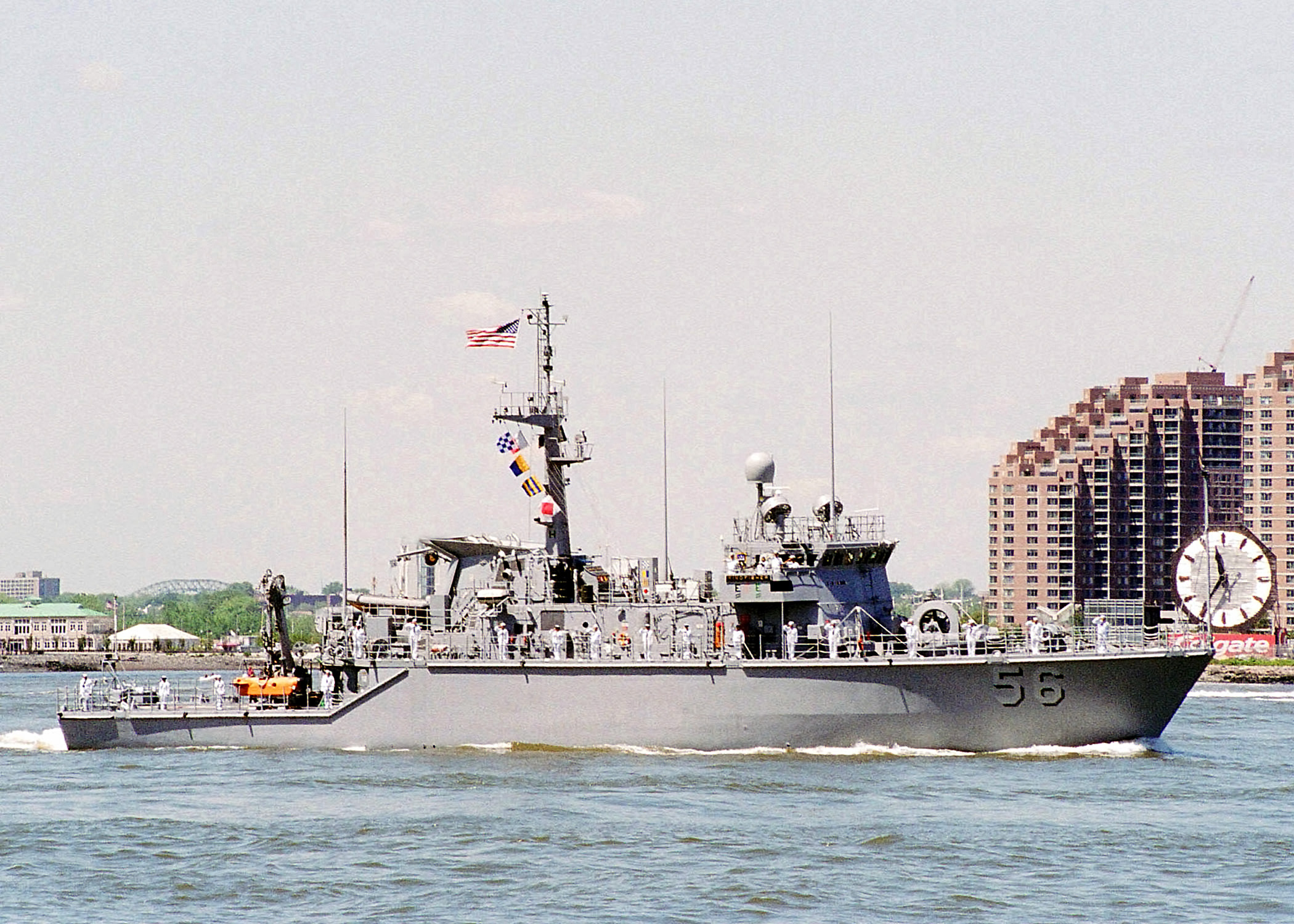 A Starboard bow view of the US Navy Osprey-class (minehunter coastal), USS Kingfisher (MHC-56), underway on the Hudson River, steaming past Battery Park, New York (NY), while participating in the 15th Annual Fleet Week Celebration, Parade of Sails.